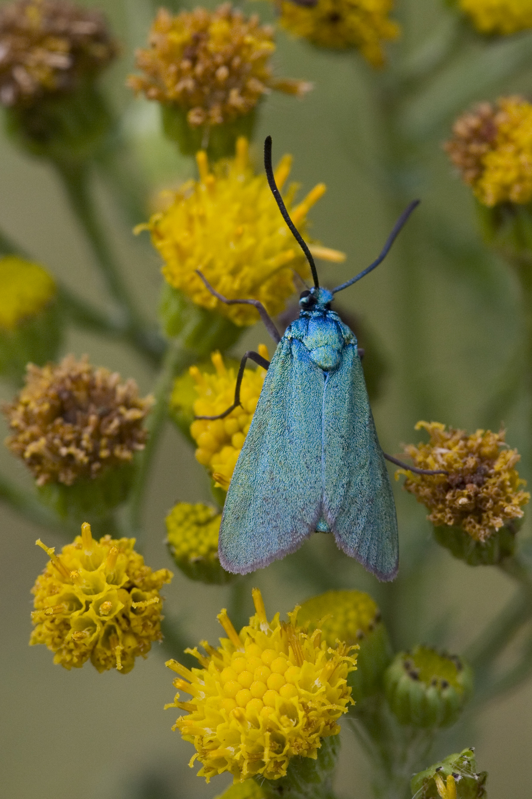 Adscita statices